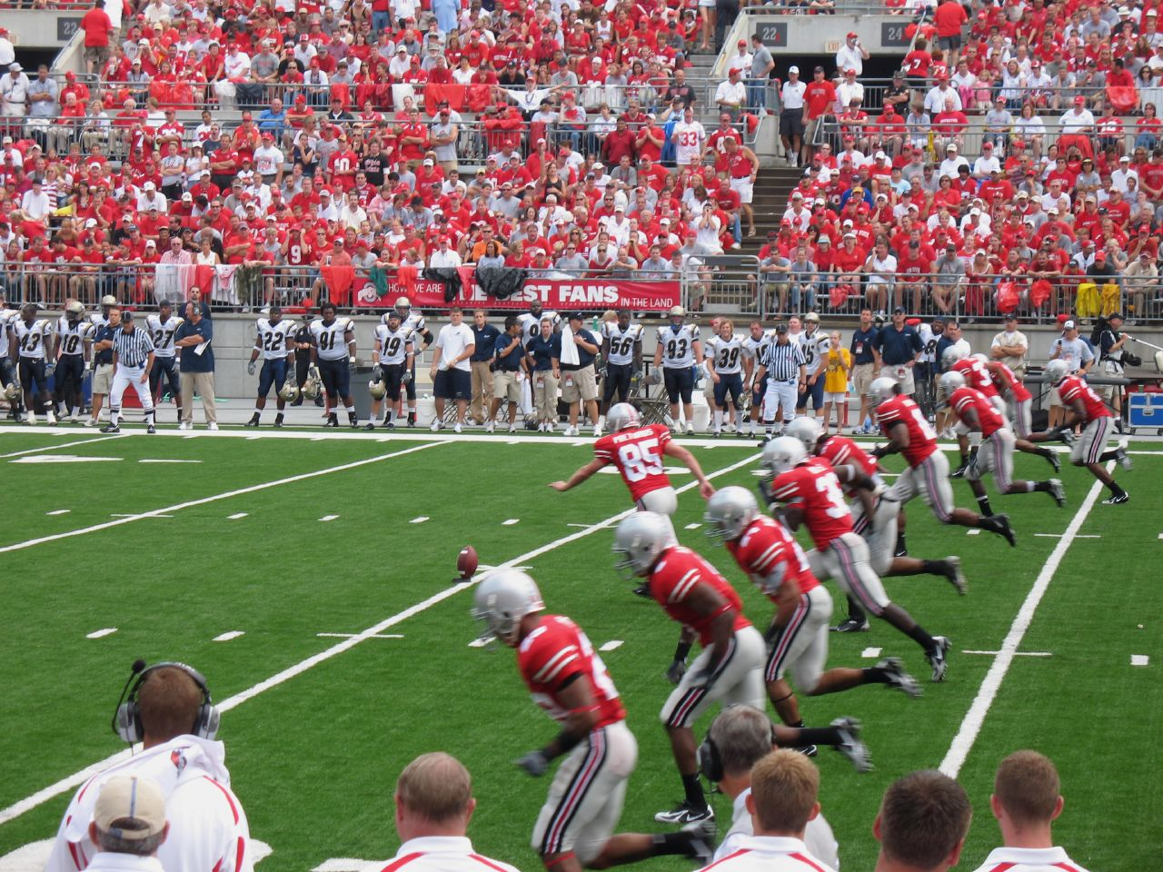 Boring game, but the best seats I've ever had.